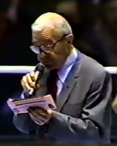 Famous Announcer Dave Zinkoff, still frame taken by ME